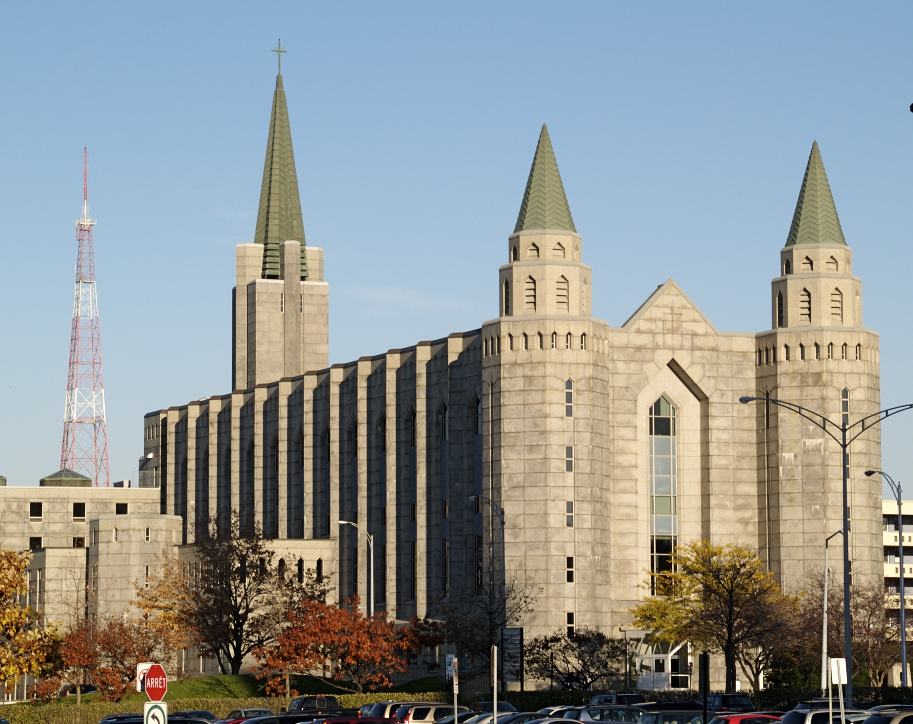 Louis-Jacques-Casault Pavillion, Laval University (Quebec City, Quebec, Canada)